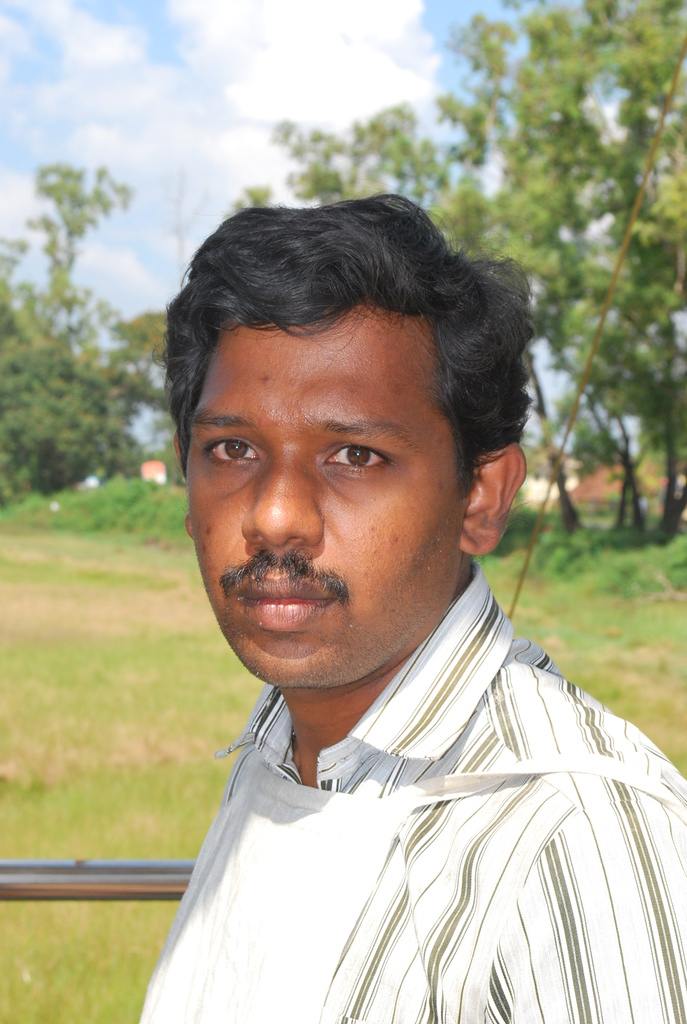 Sculptor c.s. baiju at Kerala Lalitha kala academis sculptor camp at Kayamkulam, Dec 2014